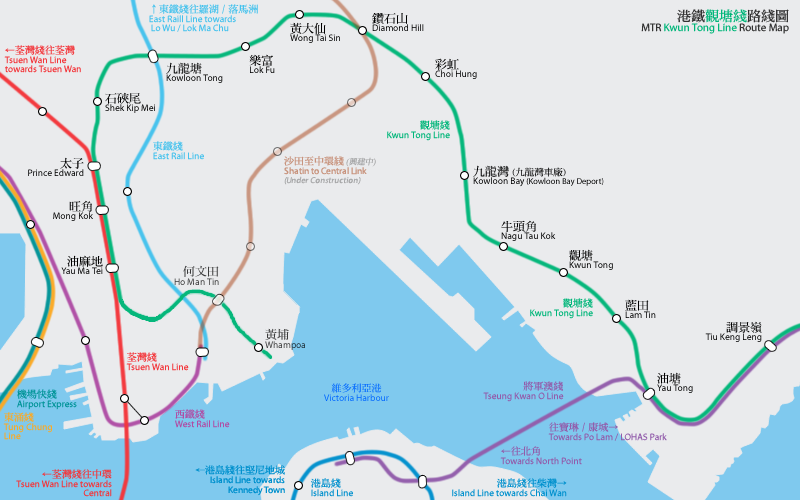 港鐵觀塘綫路線圖（按真實地形繪畫） Geographically accurate map of the MTR Kwun Tong Line By Bus_28a, Mtrkwt